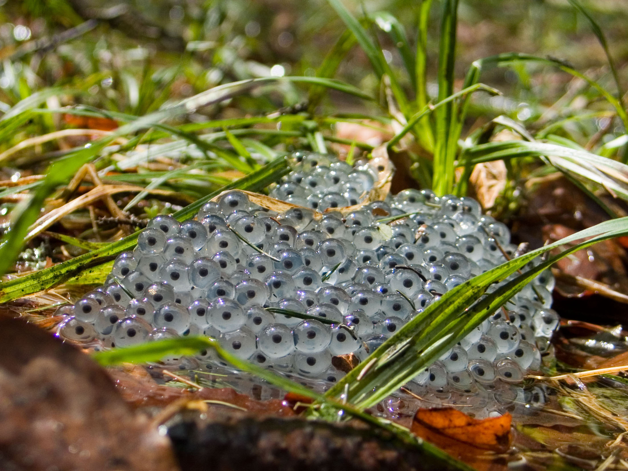 Frogspawn. Photo taken in Beskid Makowski, Poland.